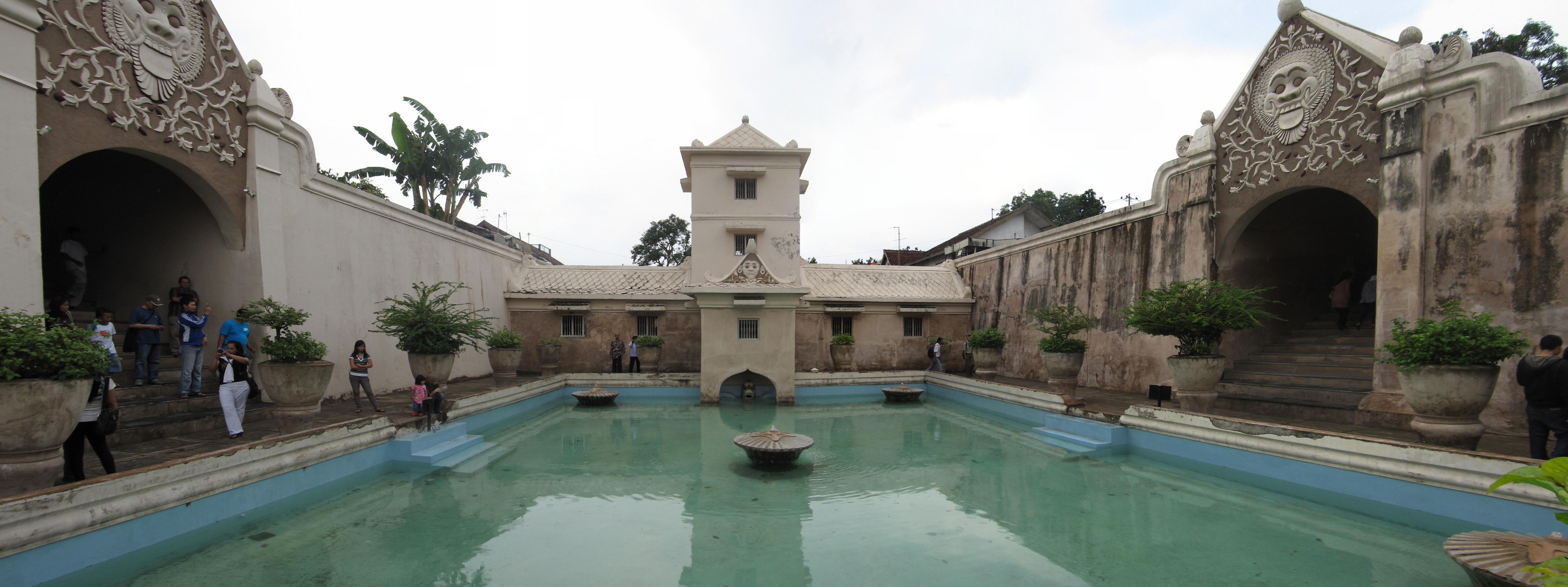 Taman Sari water palace in Yogyakarta.